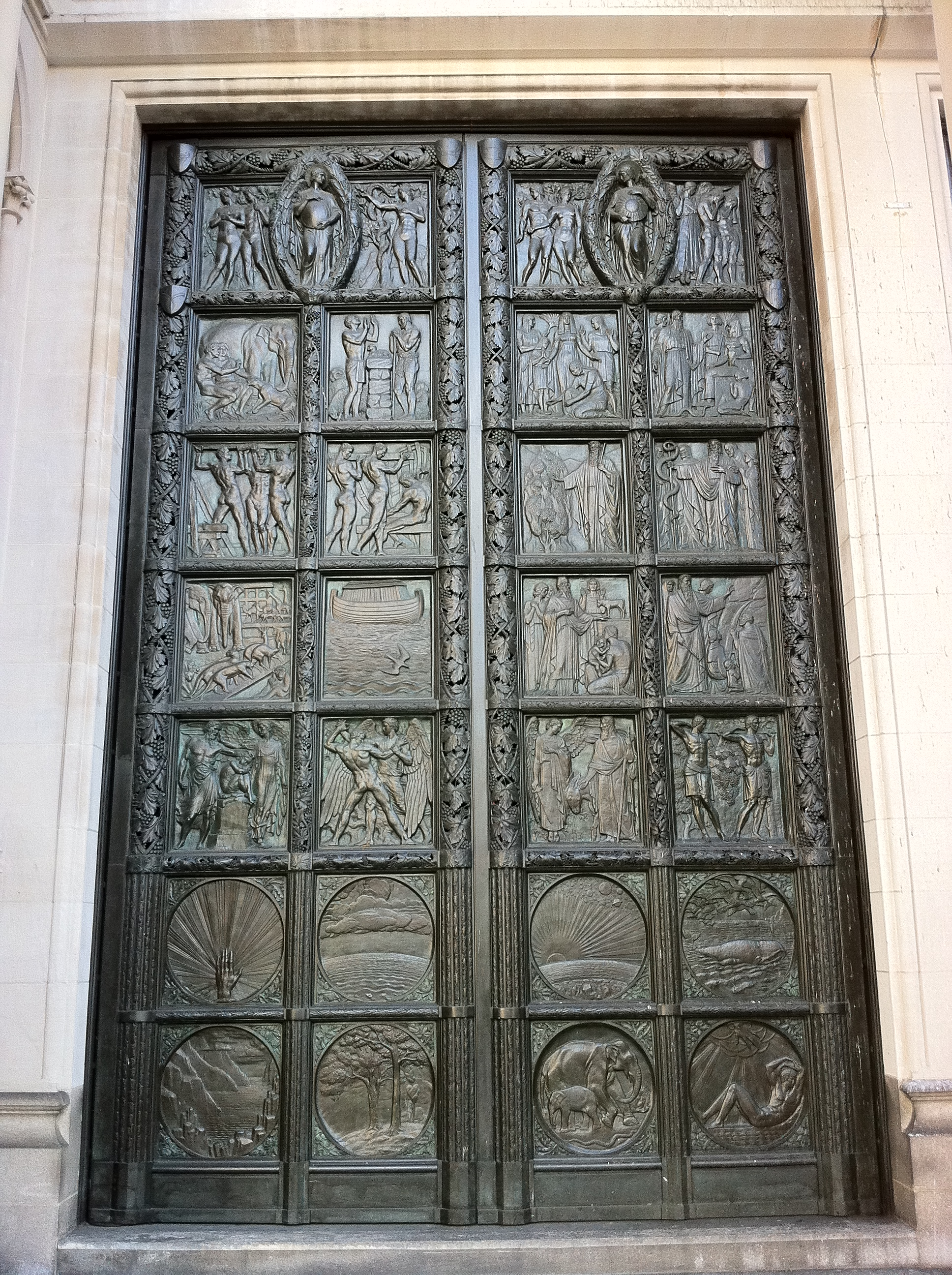 West end left hand bronze door at the Cathedral of St John the Divine, New York, created by the artist Henry Wilson between 1927 and 1931.